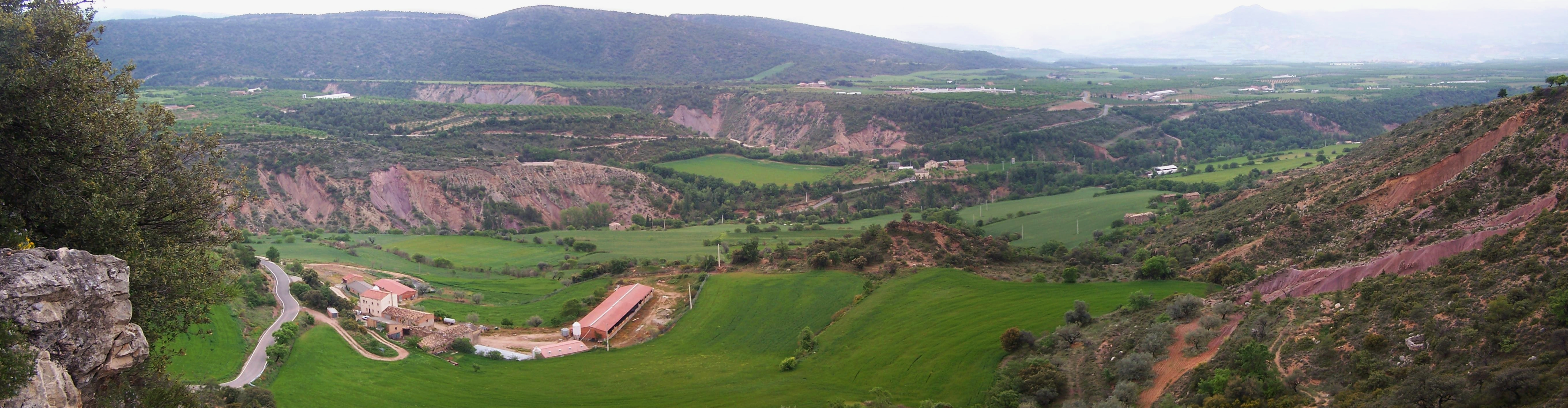 Panorama of the red beds of the Tremp Formation in the eastern Tremp Basin, looking south from Abella de la Conca